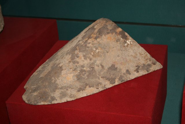 A Han Dynasty Chinese cast iron plow. The piece is hollow (not noticeable on that picture).